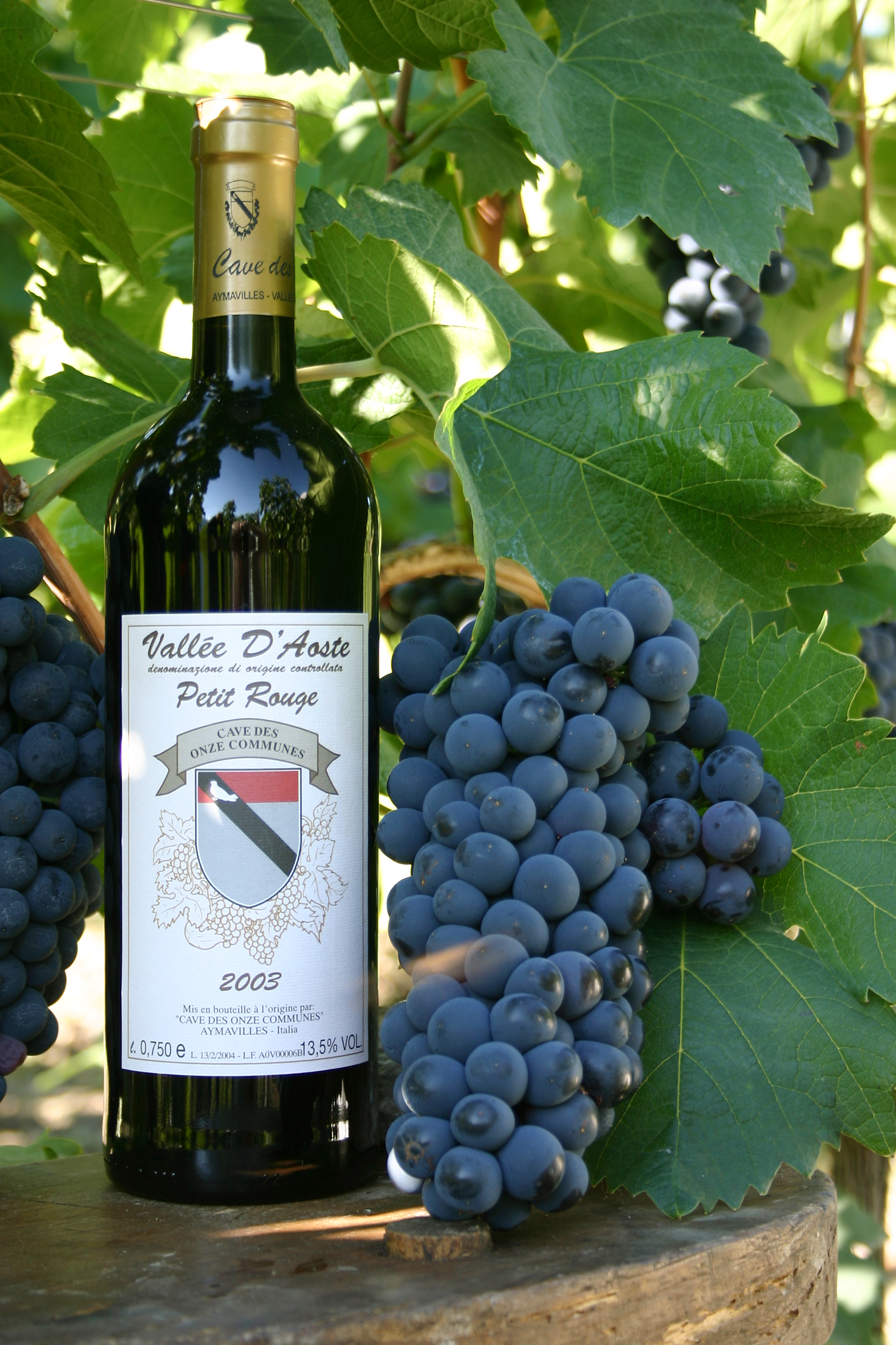 Italian wine made from the Valle d'Aosta region of northwest Italy from the Petit Rouge grape which is also pictured.